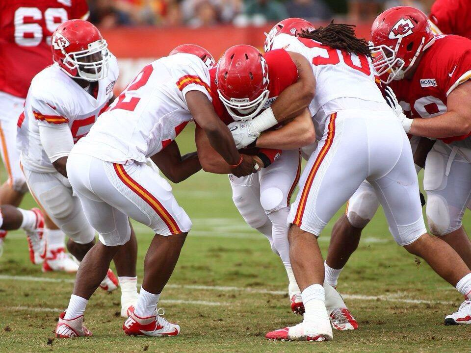 Jordan Roberts in Training Camp.